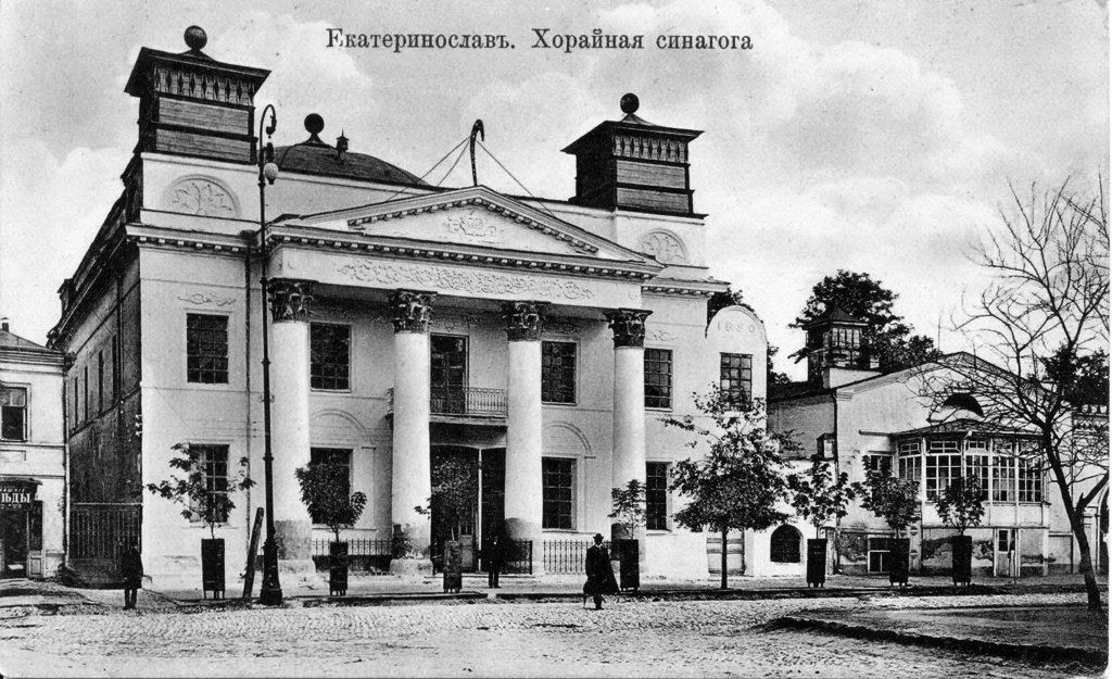 Екатеринославъ. Храмы/ Начала 20 века.